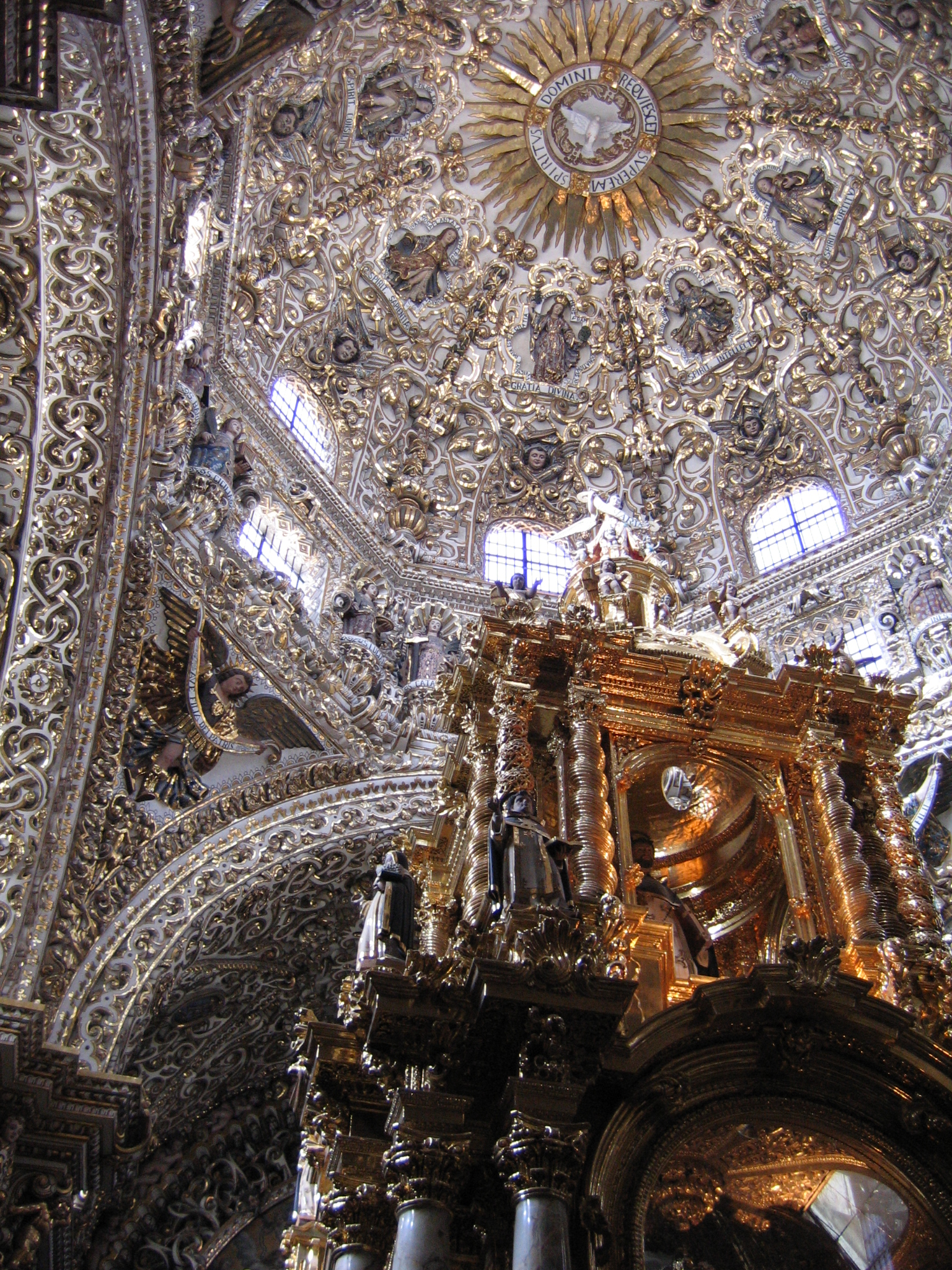 Rosario Chapel in Santo Domingo Church, Puebla, Mexico